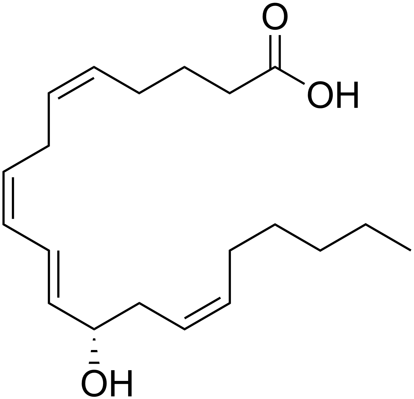 chemical structure of 12S-hydroxyeicosatetraenoic acid (12S-HETE)